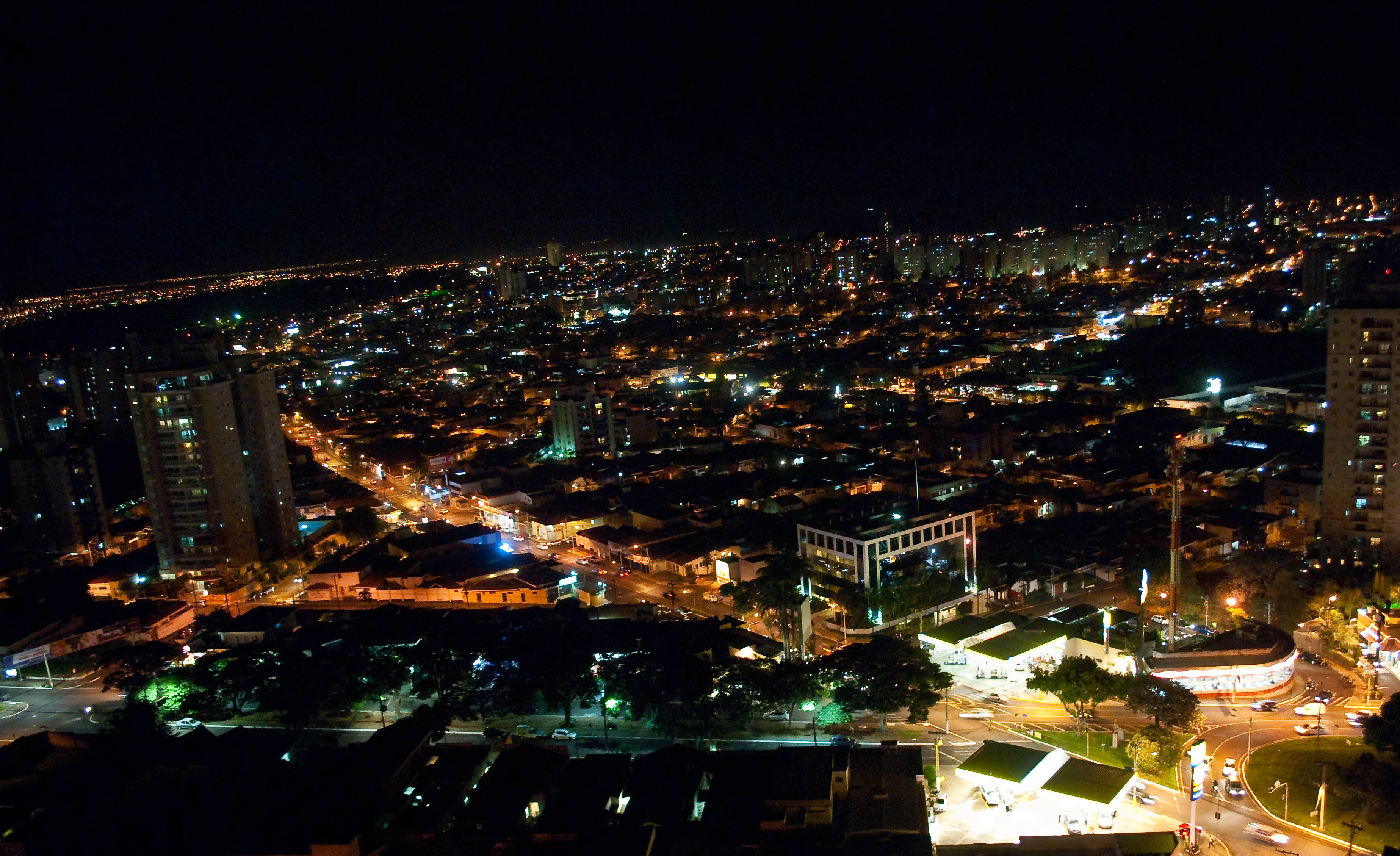 Partial nocturn view of Ribeirão Preto, São Paulo, Brazil.